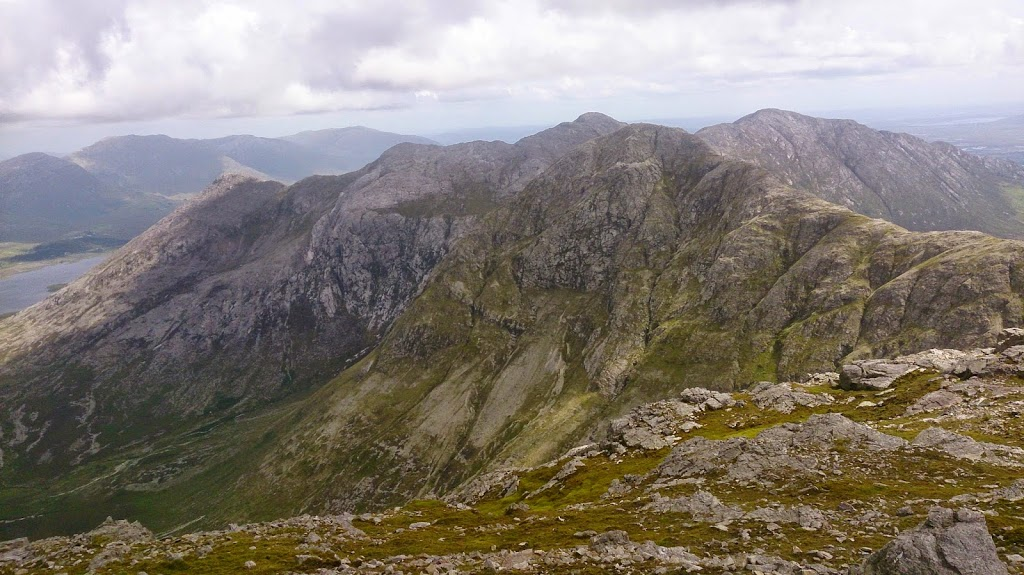 Bencollaghduff as viewed from close to the summit of Benbaun, Twelve Bens, Ireland